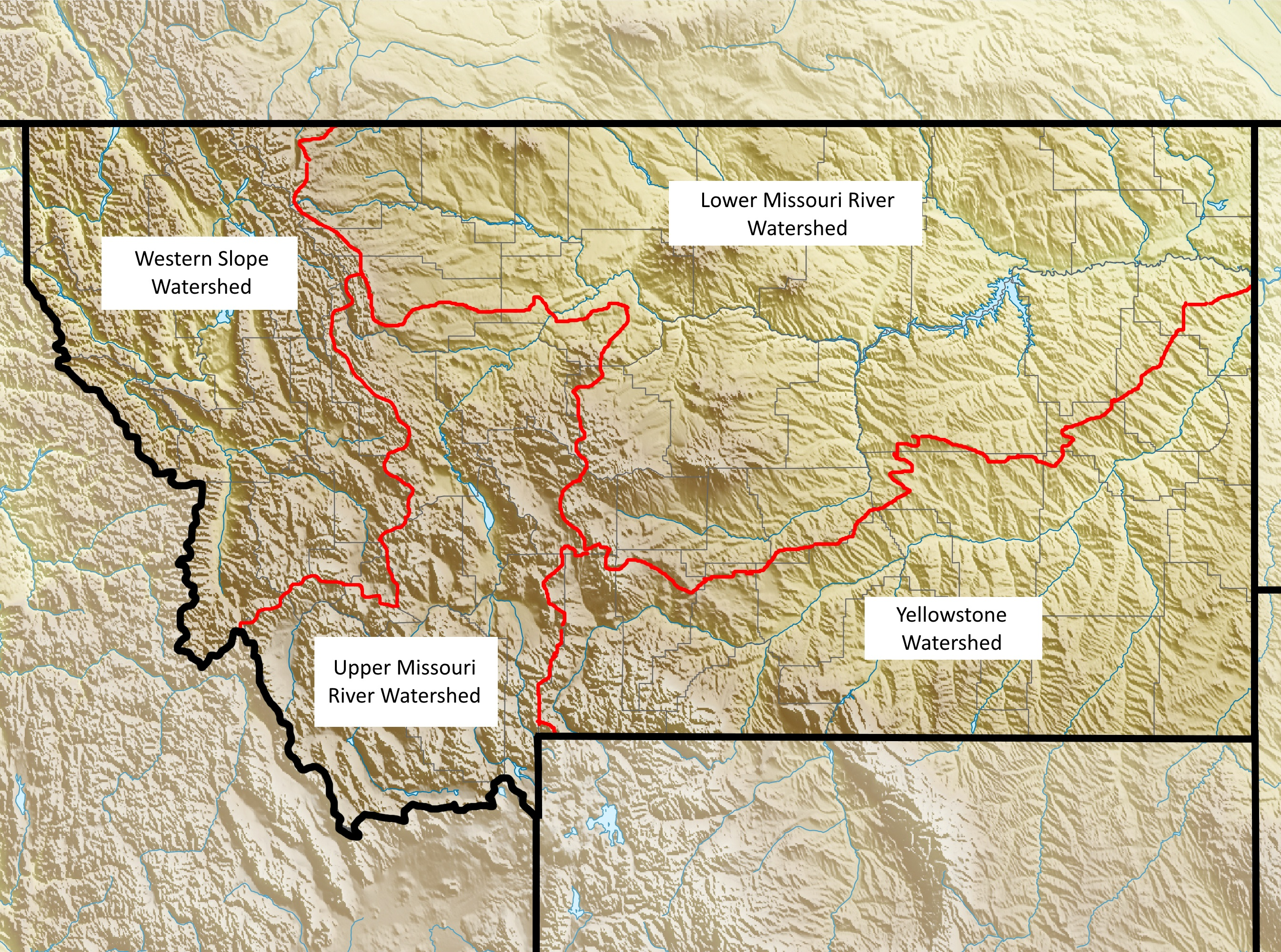 Hydrological map showing the four primary watersheds in the U.S. state of Montana. Each watershed is a district of the Montana Water Court.